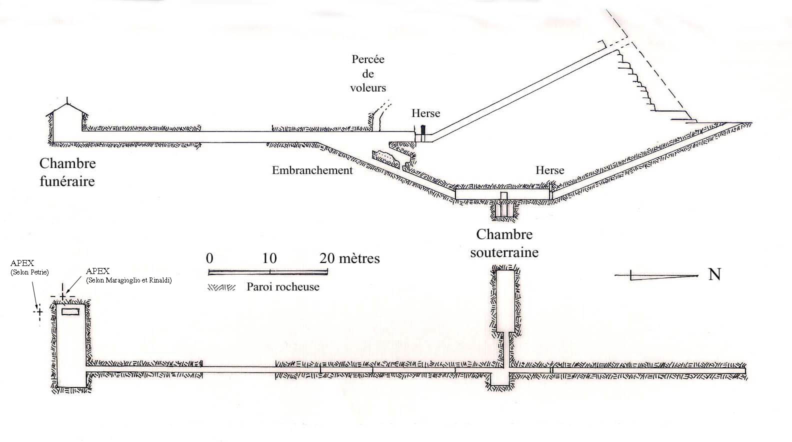 Map of the funerary apartments of the pyramid of Chephren.